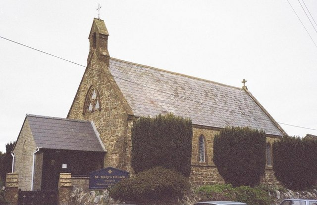 Drimpton: church of St. Mary Built 1867.